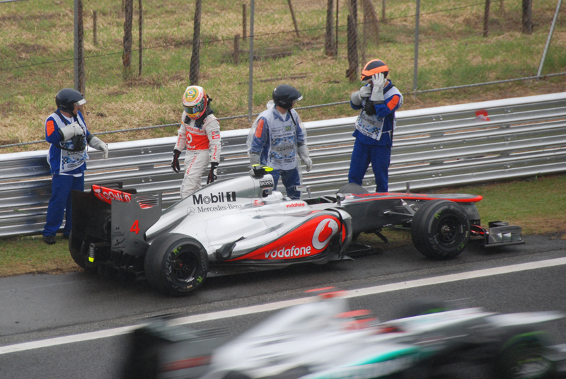 Hamilton retires from the 2012 Brazilian Grand Prix